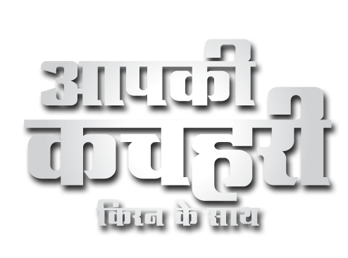 A K K